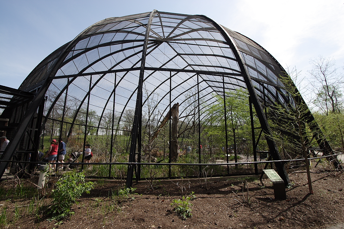 1904 Flight Cage (Aviary), Saint Louis Zoological Park, Saint Louis, Missouri, 2006.